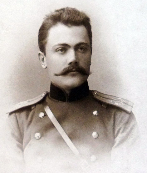 Colonel Kote Abkhazi Georgia Pre-1921 image, unknown author